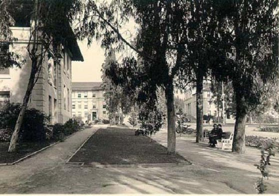 Occidental College in the 1920's